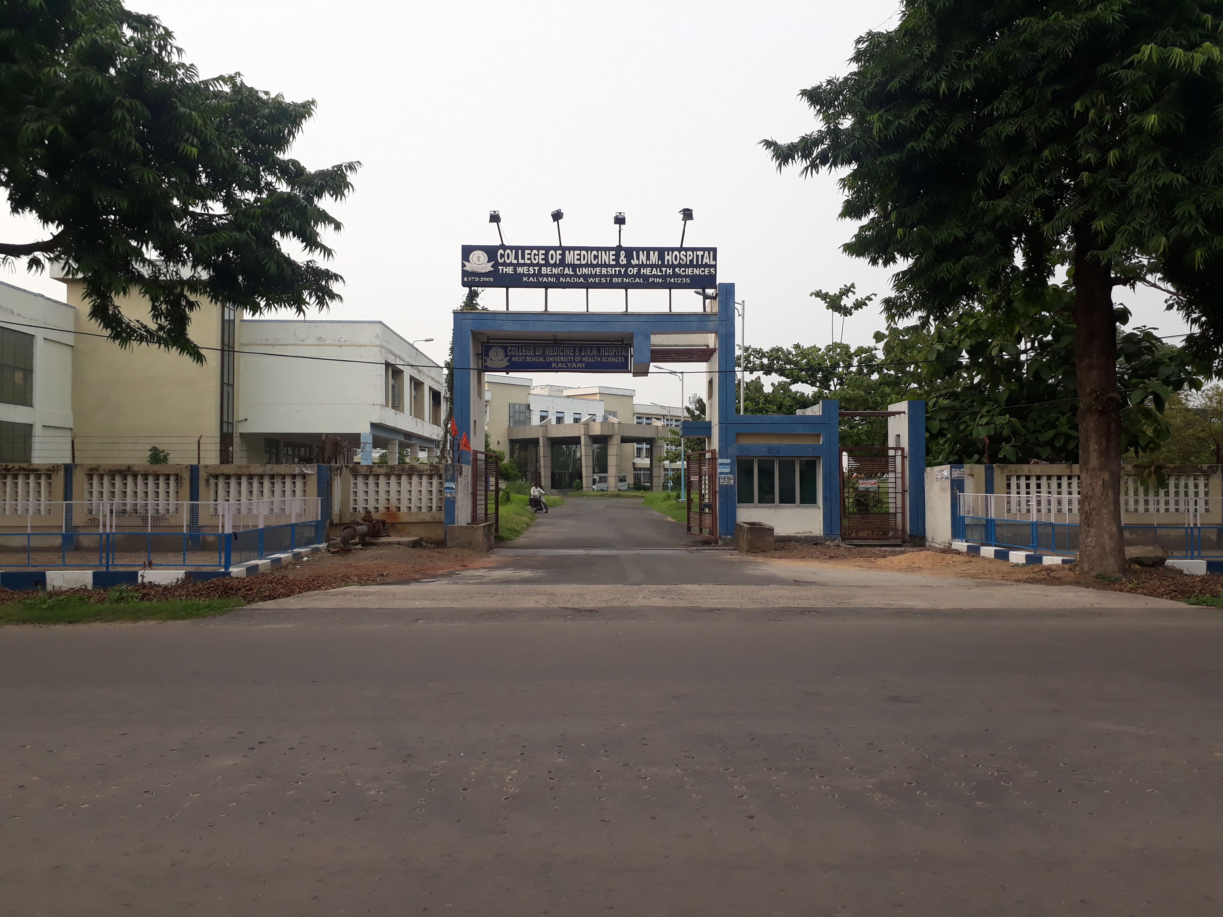 Main gate of Kalyani Medical College and JNM Hospital, situated at Kalyani, Nadia, West Bengal